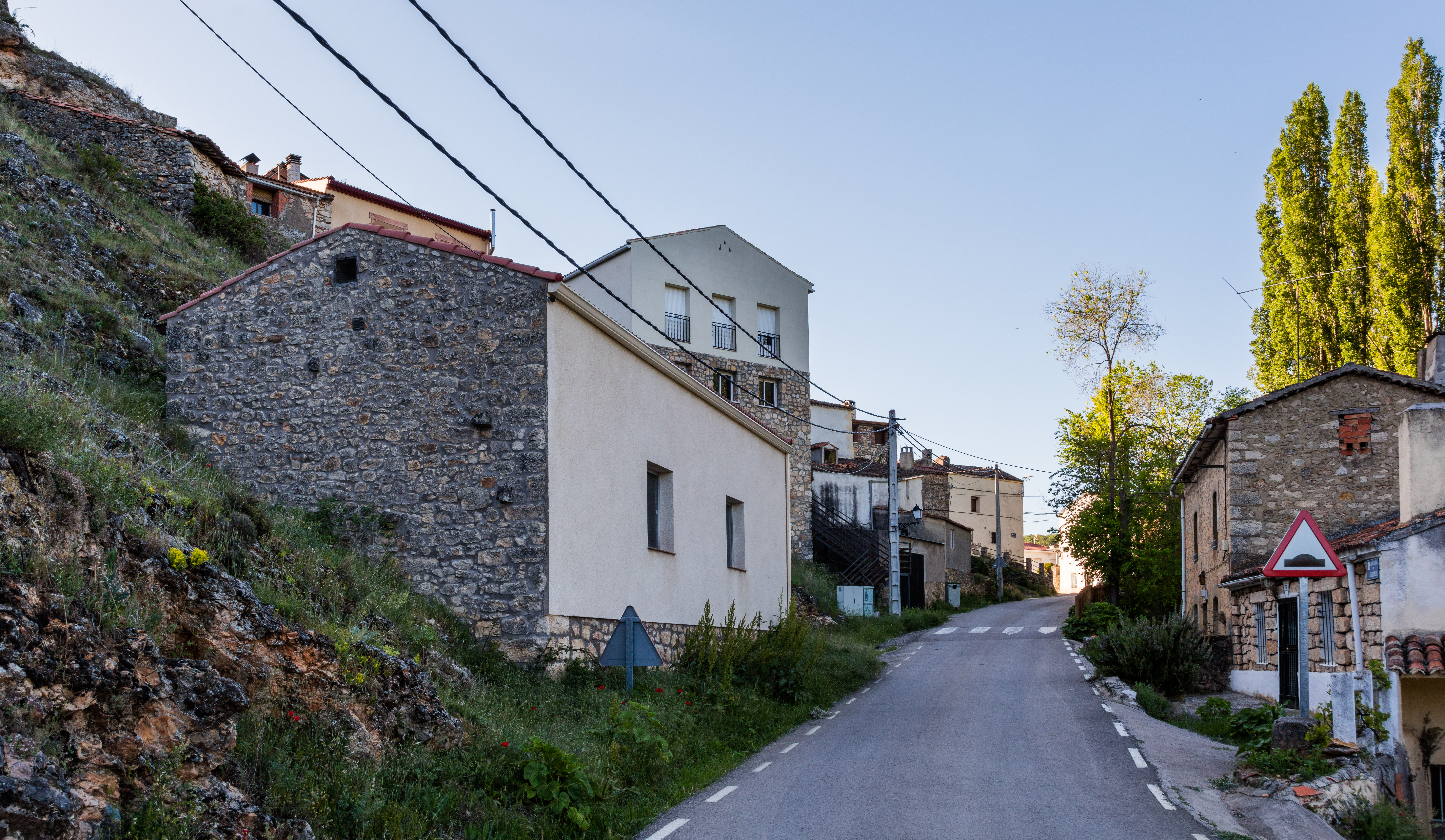 Abánades, Guadalajara, Spain